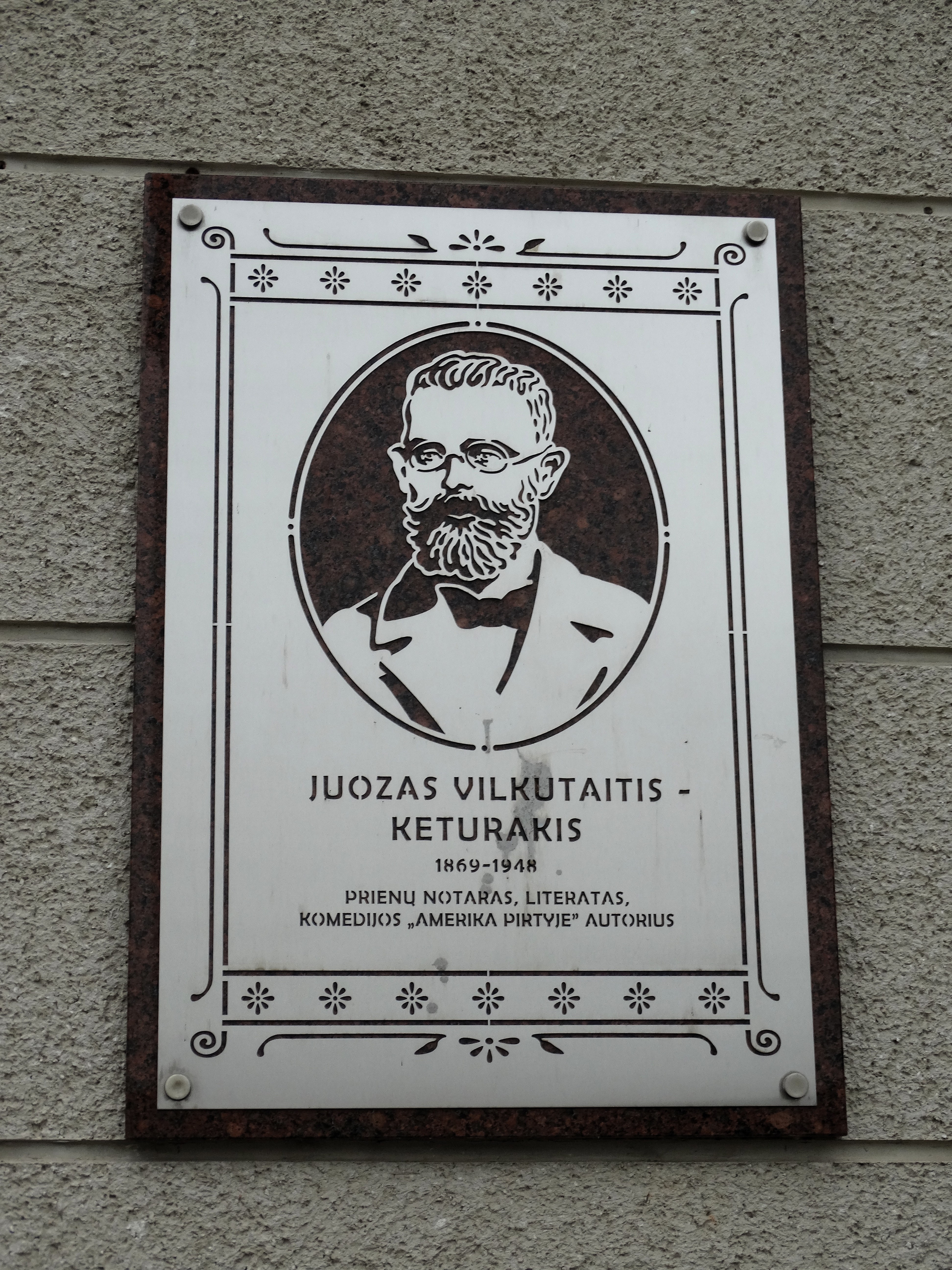 Memorial board to Juozas Vilkutaitis–Keturakis, Prienai, Lithuania